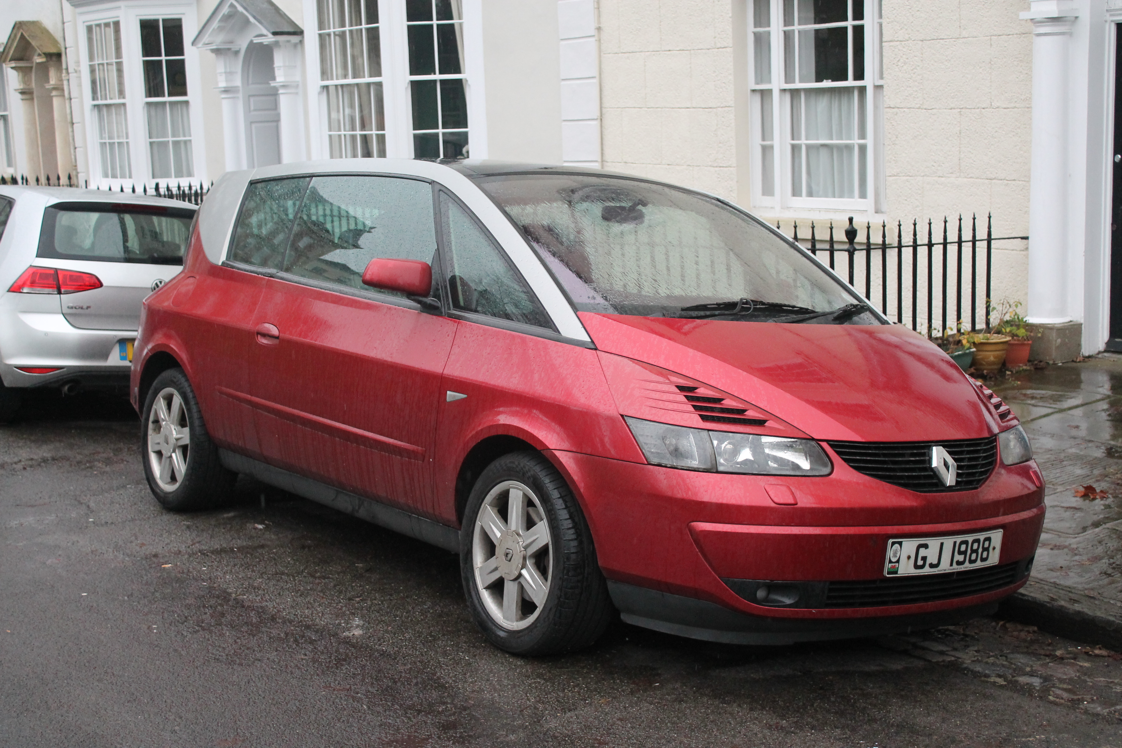 These are hard to come by anyway, they never sold particularly well in Britain. Only 8,500 were built worldwide. This is one of 108 Avantime Dynamiques on the roads. EDIT: Actually GJI 988 (thanks Rustdreamer.) Are the plates legal like that? The vehicle details for GJI 988 are: Date of Liability 01 10 2014 Date of First Registration 31 10 2003 Year of Manufacture 2003 Cylinder Capacity (cc) 1998cc CO₂ Emissions 218 g/km Fuel Type PETROL Export Marker N Vehicle Status Licence Not Due Vehicle Colour RED Vehicle Type Approval M1